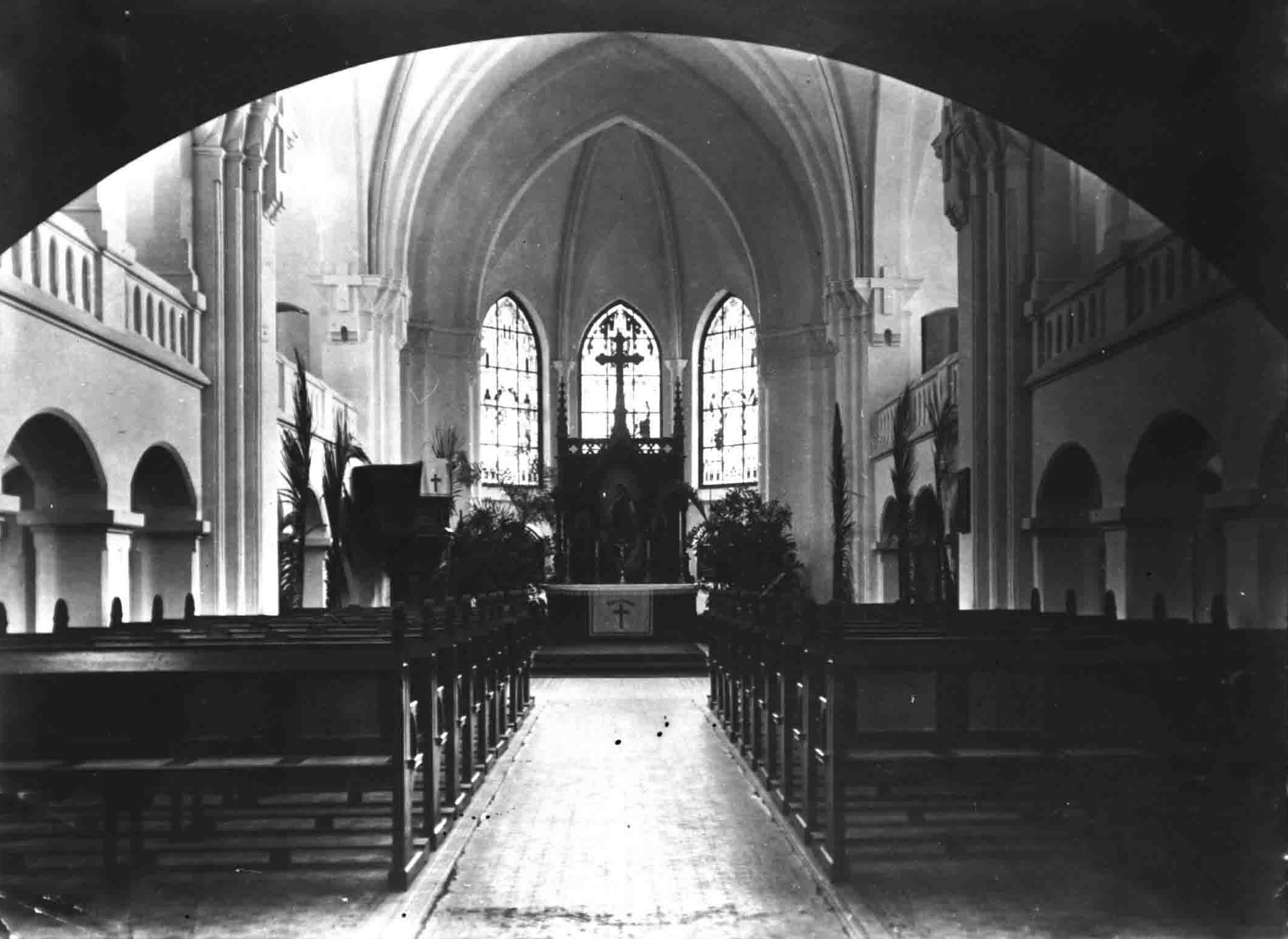 nave of the Roman-Catholic in Windhoek, Namibia; build in 1908